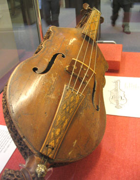 Taken by Nick Daisley at British Museum, 25 September 2006. Not great pictures, taken through glass case, but better than nothing....